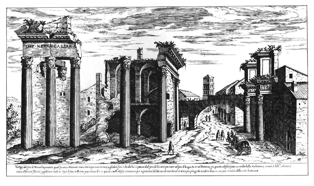 Remains of the temple of Minerva (demolished 1606) and the Forum of Nerva in Rome